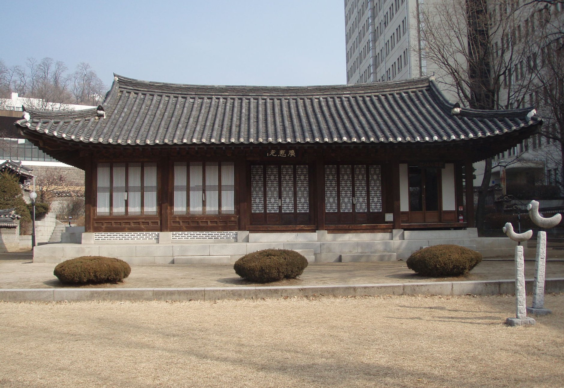 Jejungwon, inside Yonsei University. see also: Gwanghyewon